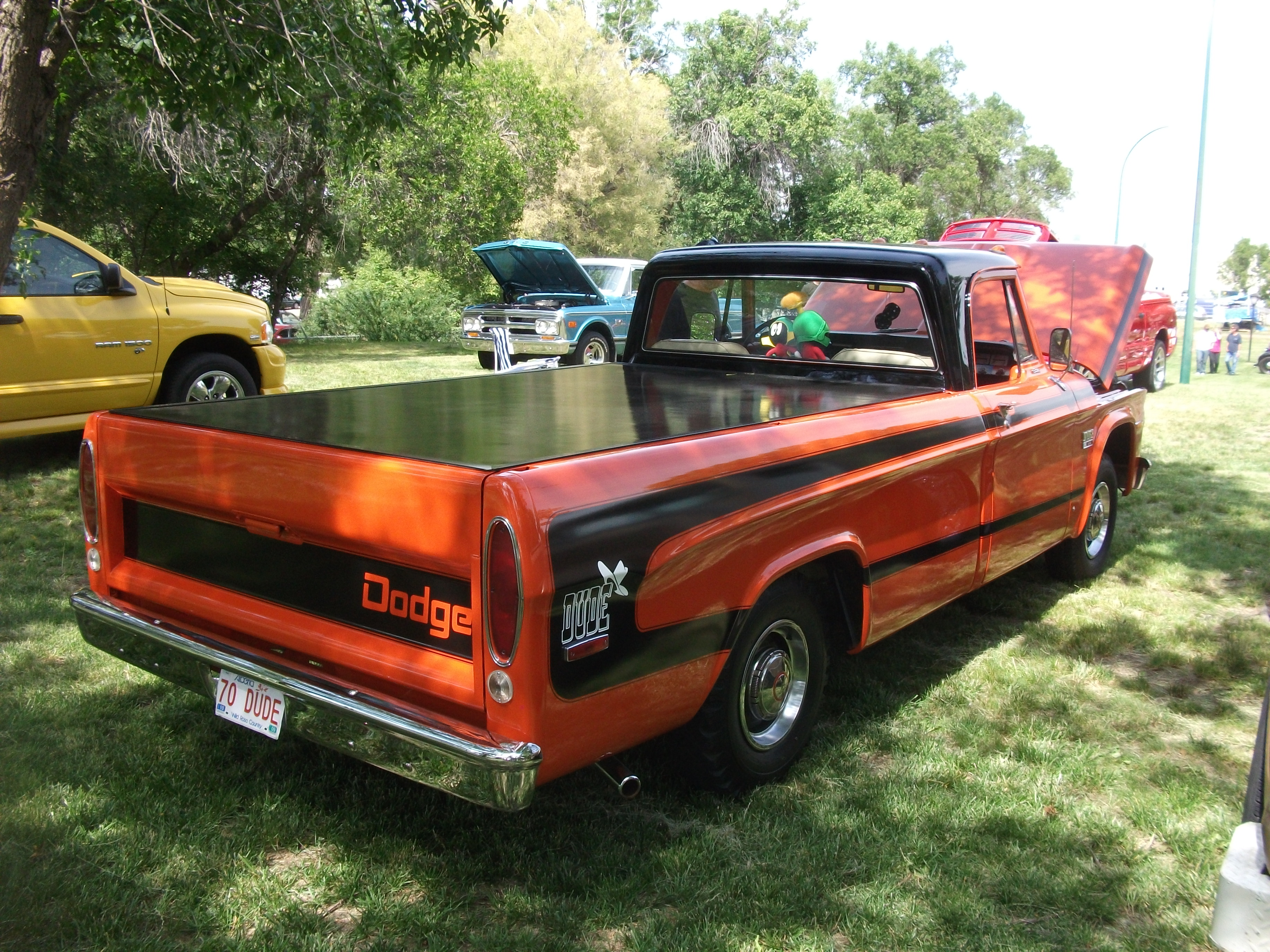 1970 Dodge The Dude - The Dude was an optional package available on Dodge trucks. Featured a cowboy hat logo and distinctive C shape stripe. Only 1500-2000 where made between 1970 and 1971.